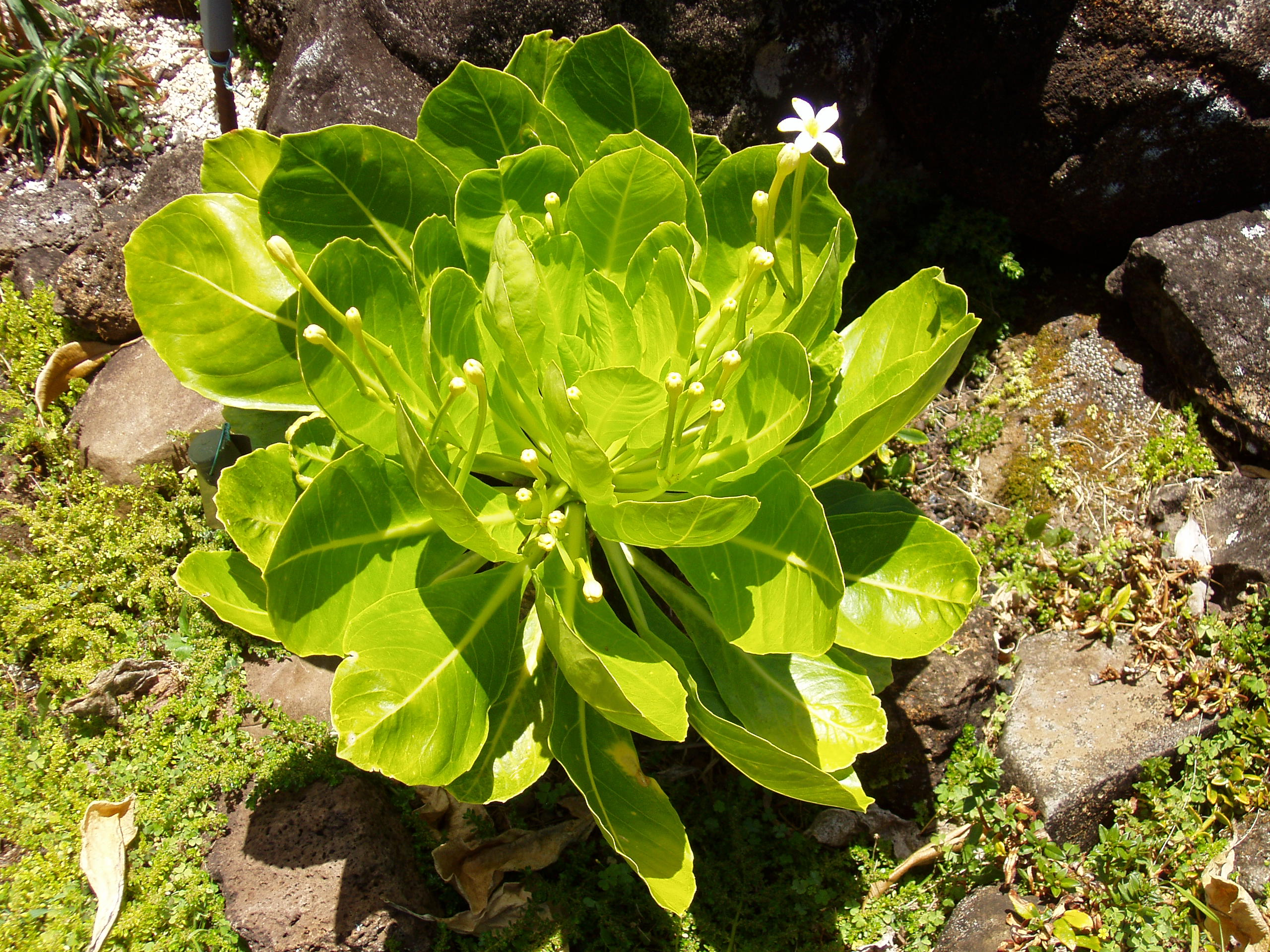 Brighamia insignis - flowers. From the Limahuli Garden and Preserve, Kauai, Hawaii.